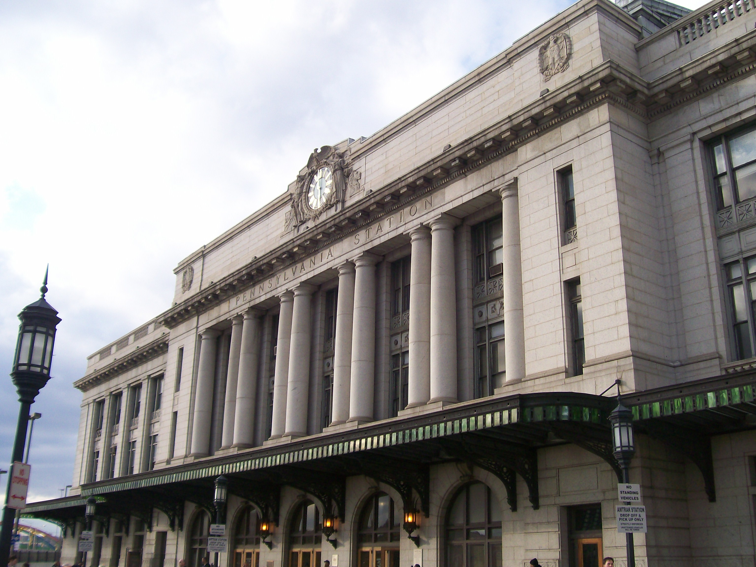 Taken by me, IRTEagle102704- Released into the public domain.